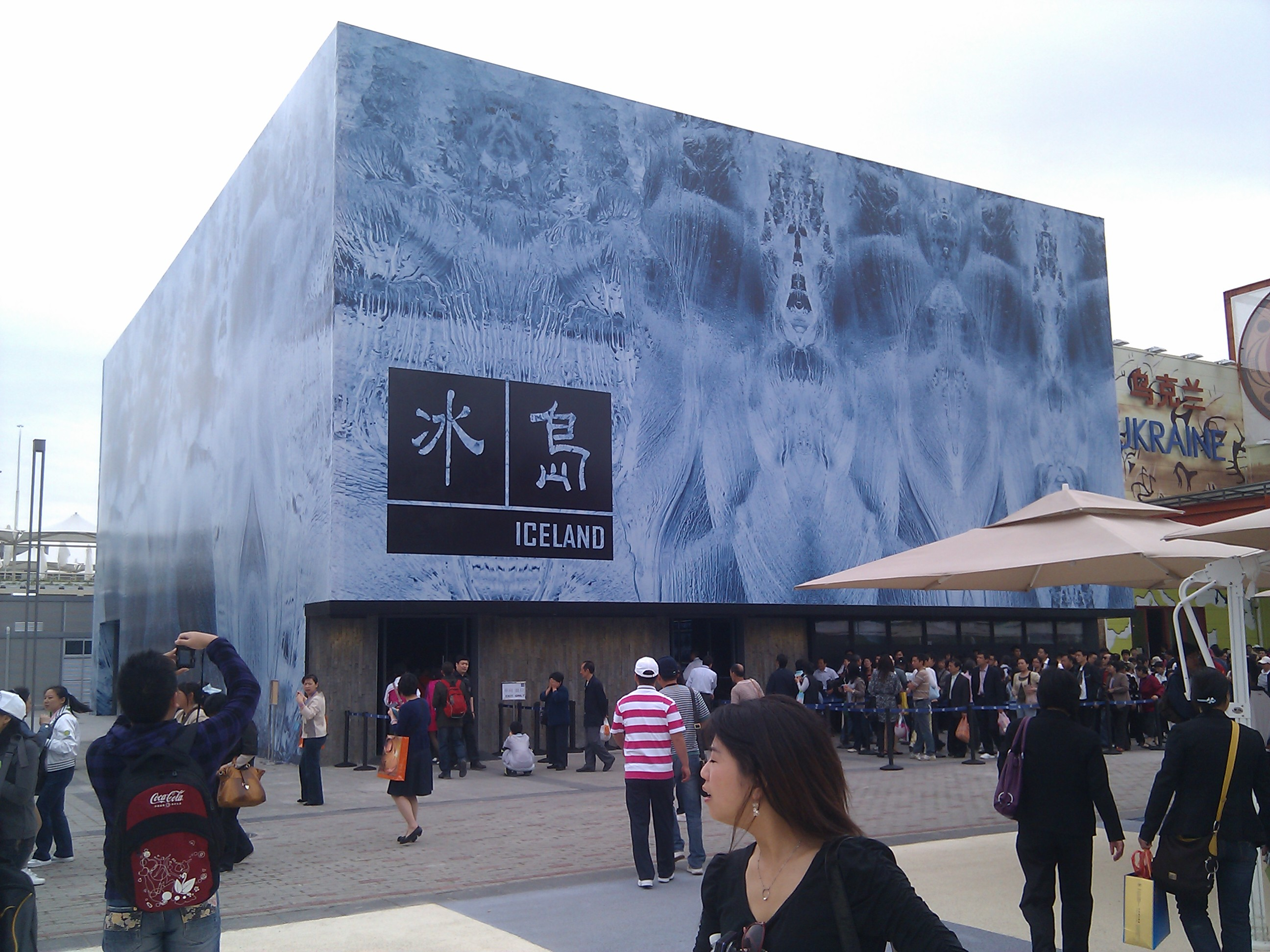 Iceland Pavilion of Shanghai Expo